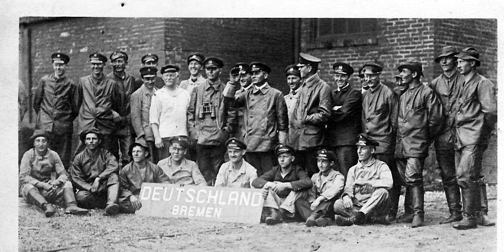 The crew of Deutschland (Handels-U-Boot), German submarine Deutschland in Baltimore, 1916